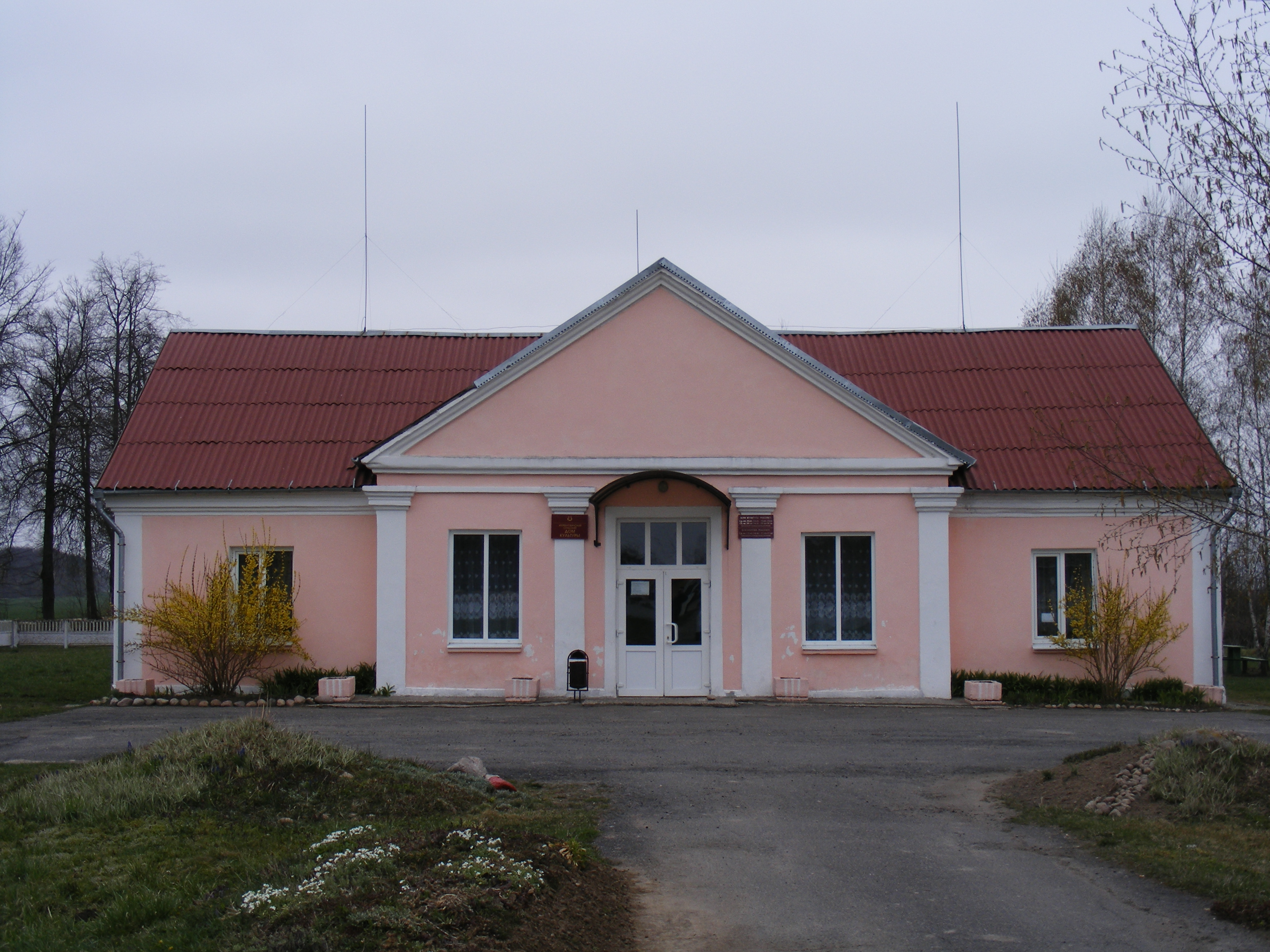 House of Culture of the Žarabkovičy village, Lyakhavichy Raion, Brest Region, Belarus.